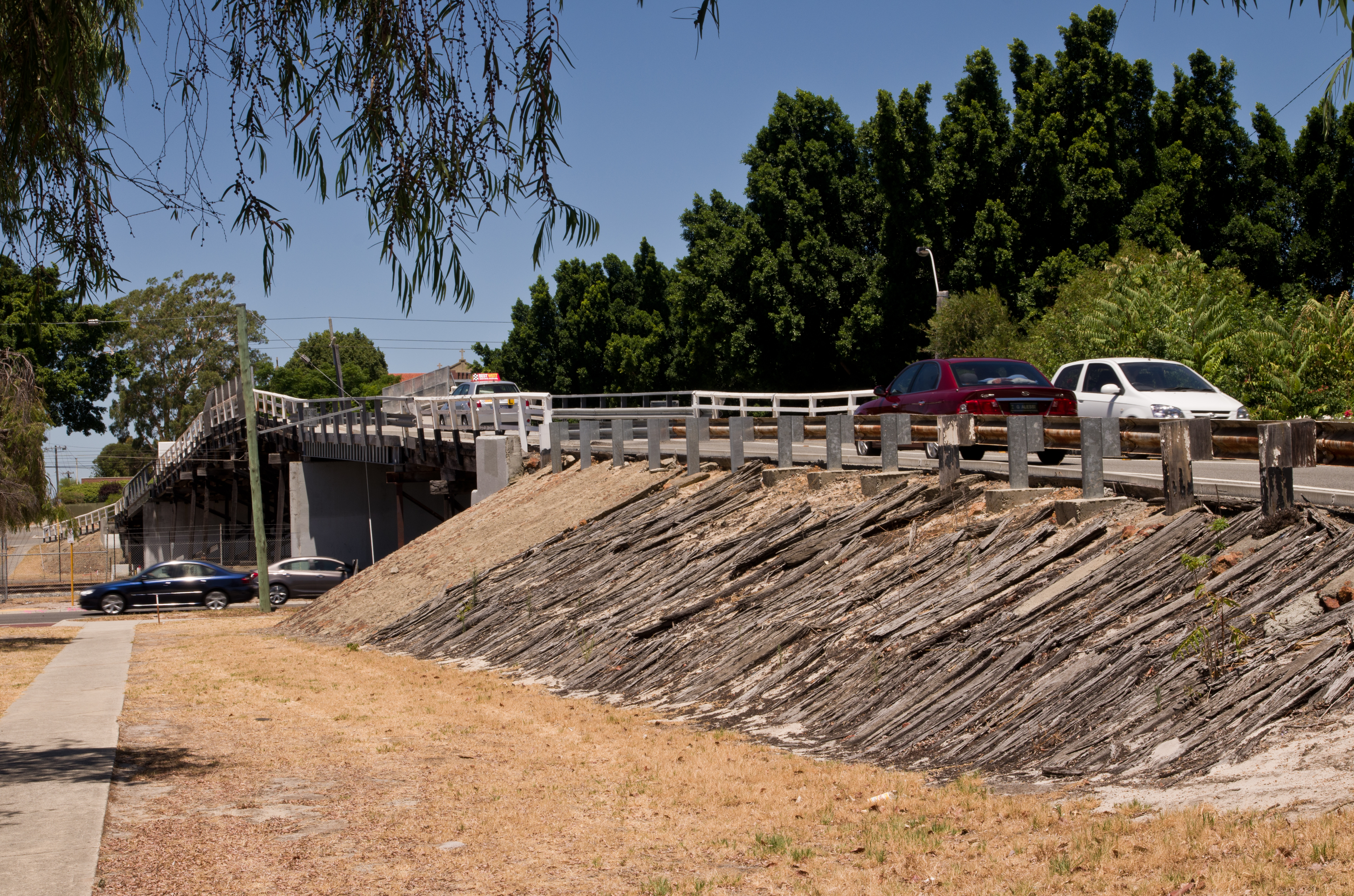 7th Avenue Bridge Maylands 7th Ave Bridge